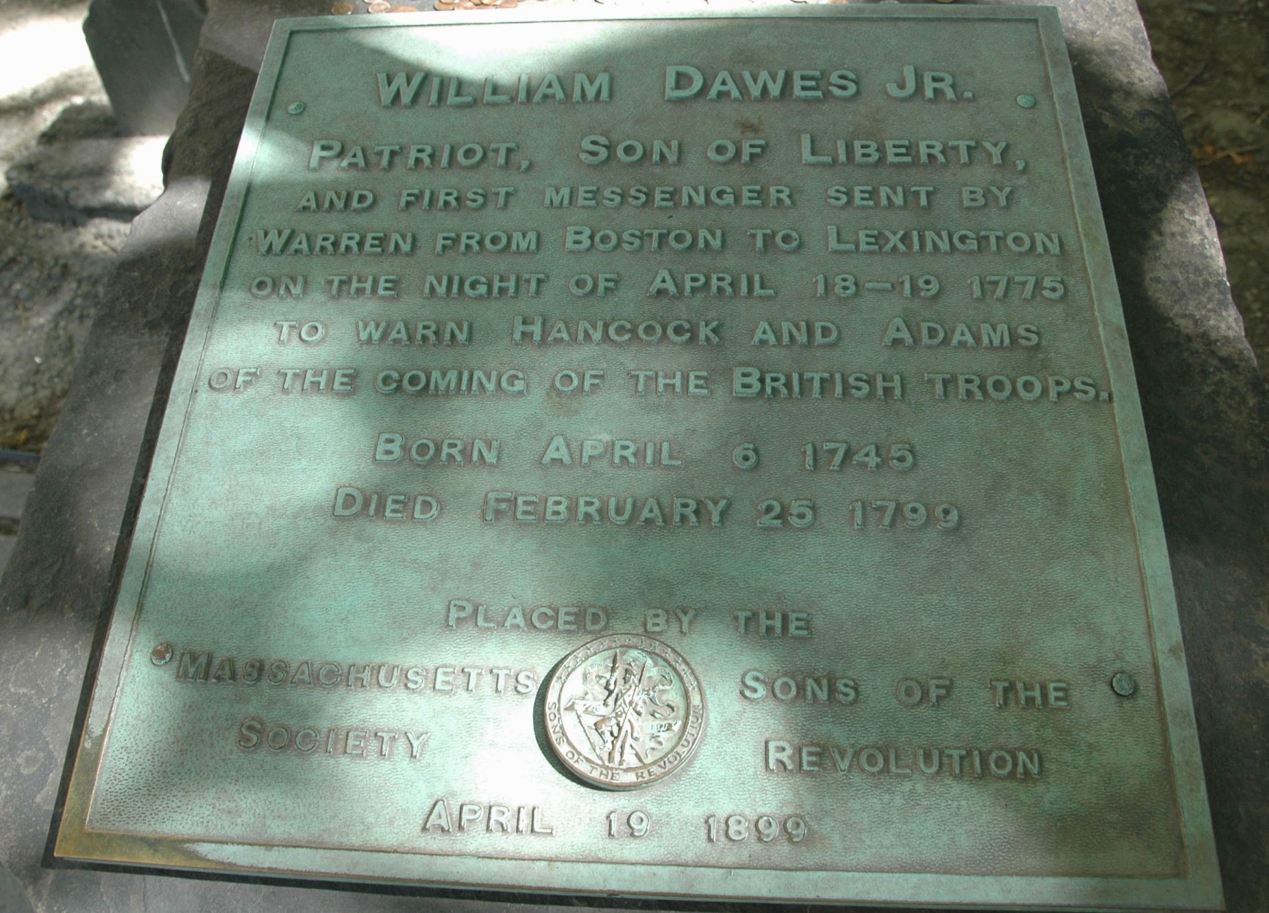 Tomb marker of William Dawes, Jr. (1745–1799) in King's Chapel Burying Ground, Boston, Massachusetts